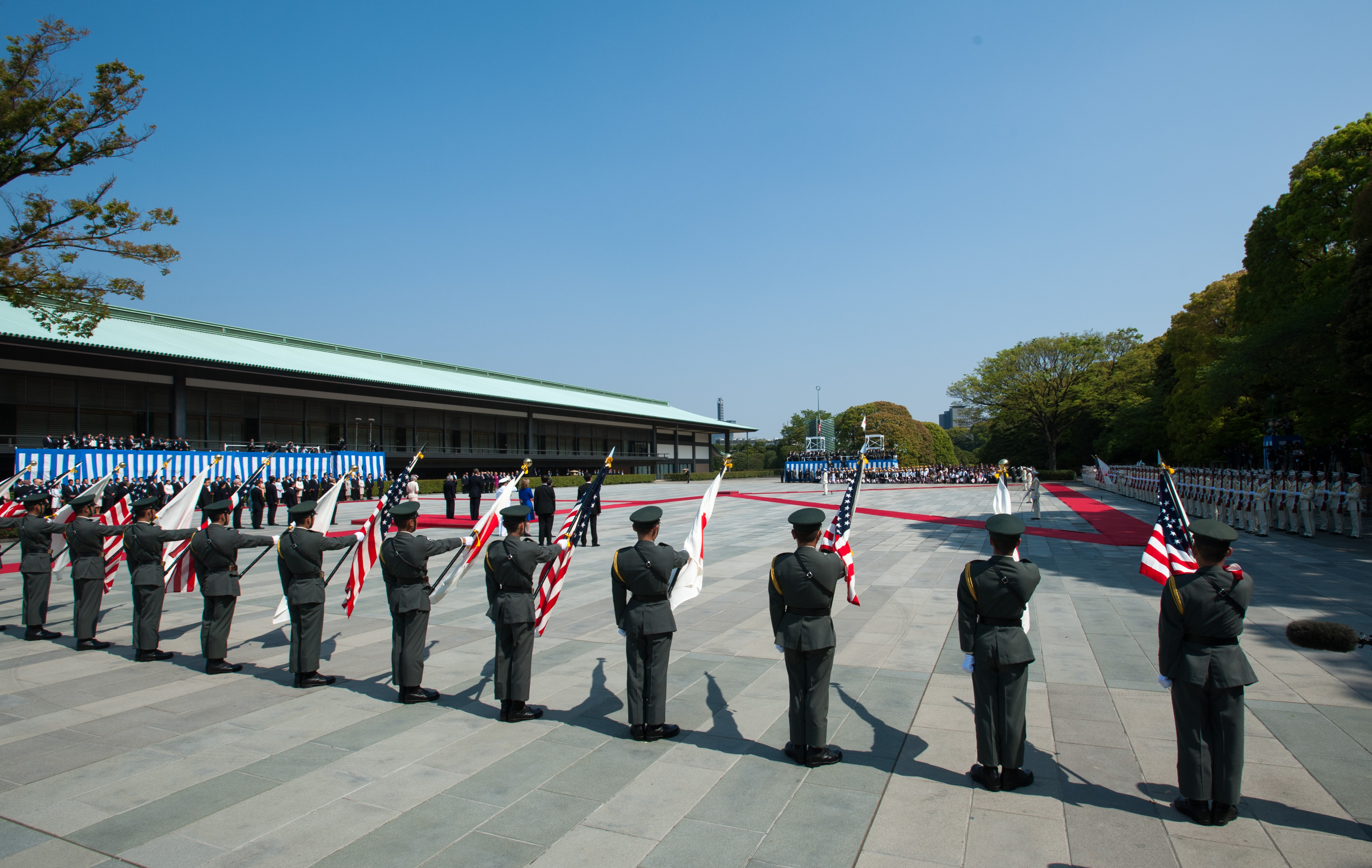 TOKYO, Japan (April 24, 2014) U.S. President Barack Obama, with U.S. Ambassador to Japan Caroline Kennedy, participates in the welcome ceremony at the Imperial Palace during his state visit to Japan. [State Department photo by William Ng/Public Domain]